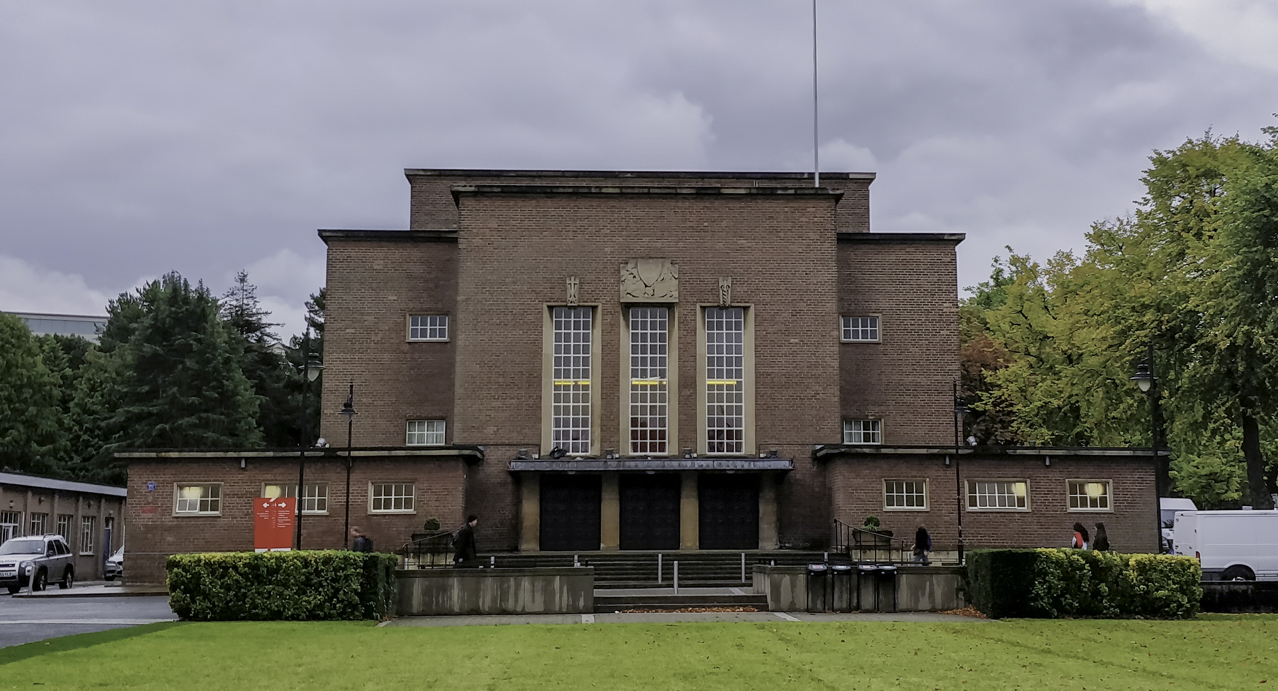 Whitla Hall Queens University Of Belfast University Road Belfast Wikidata has entry Q17860779 with data related to this item.